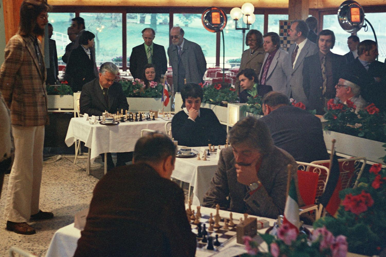 Tournament hall of the Dortmunder Schachtage 1974